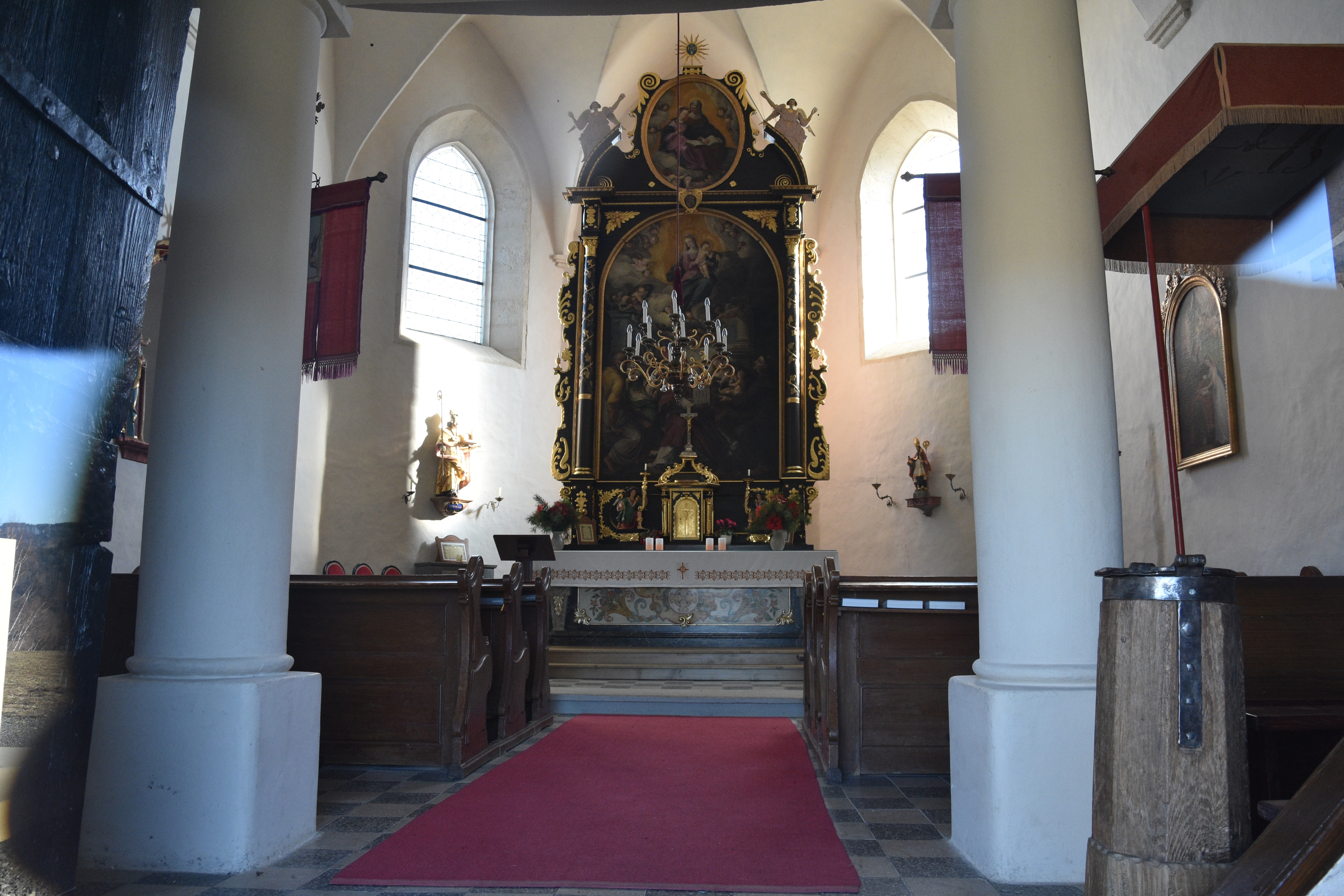 Church Filialkirche Sankt Wolfgang, Hollenegg Interior